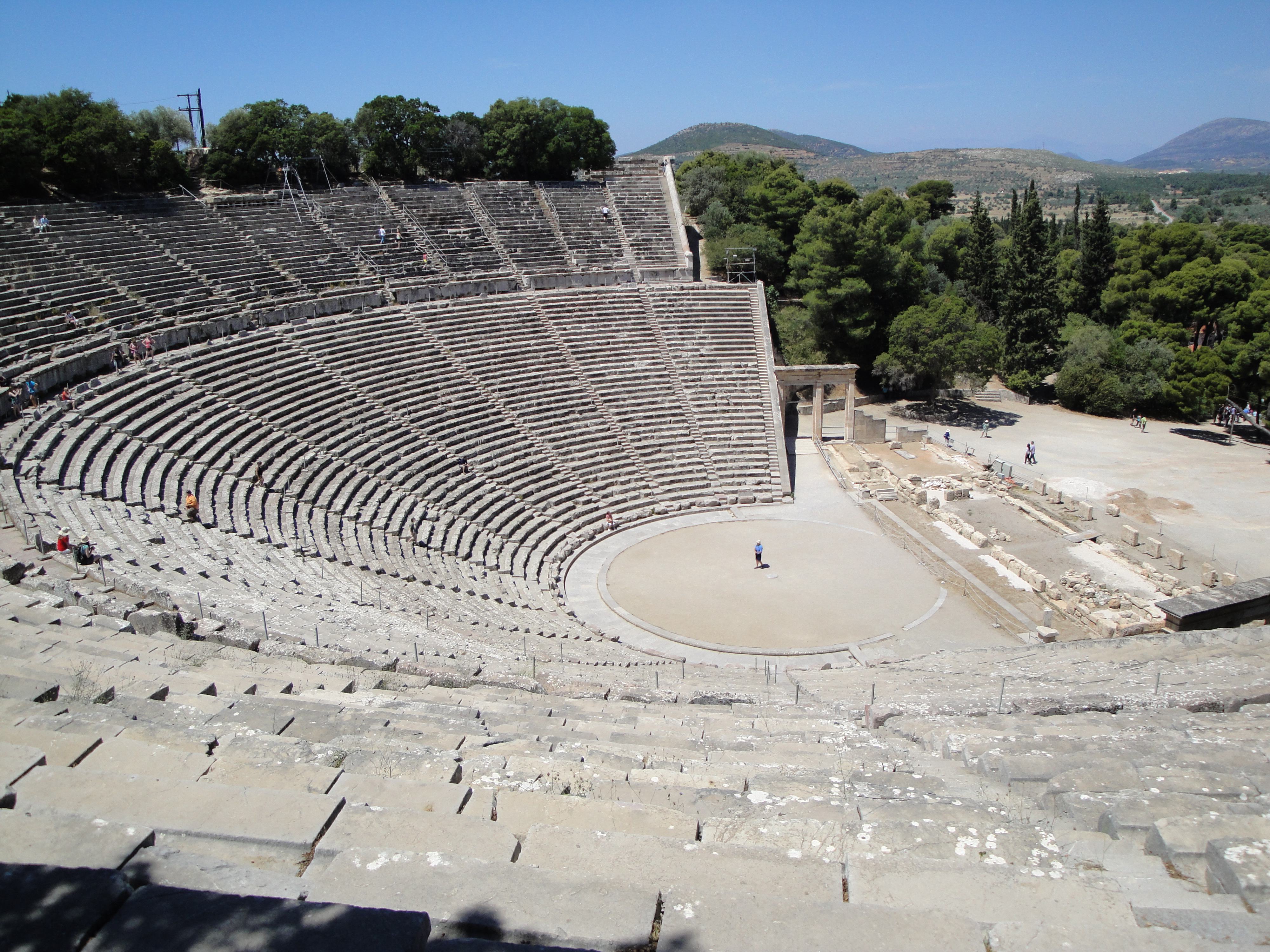 The ancient Greek theatre at Epidauros